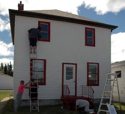 The house that Kyle MacDonald gained through his one red paperclip, 503 Main Street, Kipling, SK